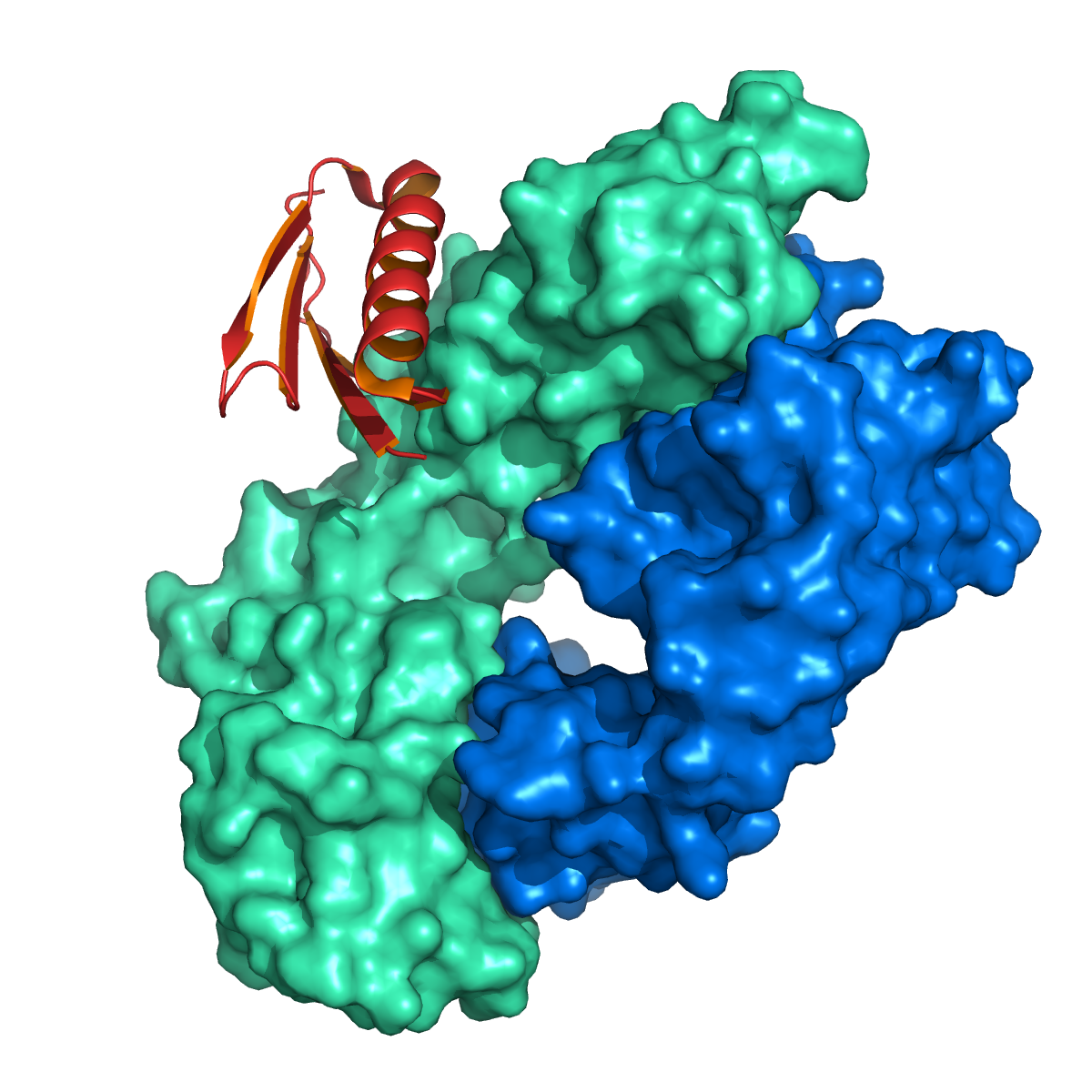 Protein L bound to the light chain (cyan) of a murine immunoglobulin. PDB: 1MHH